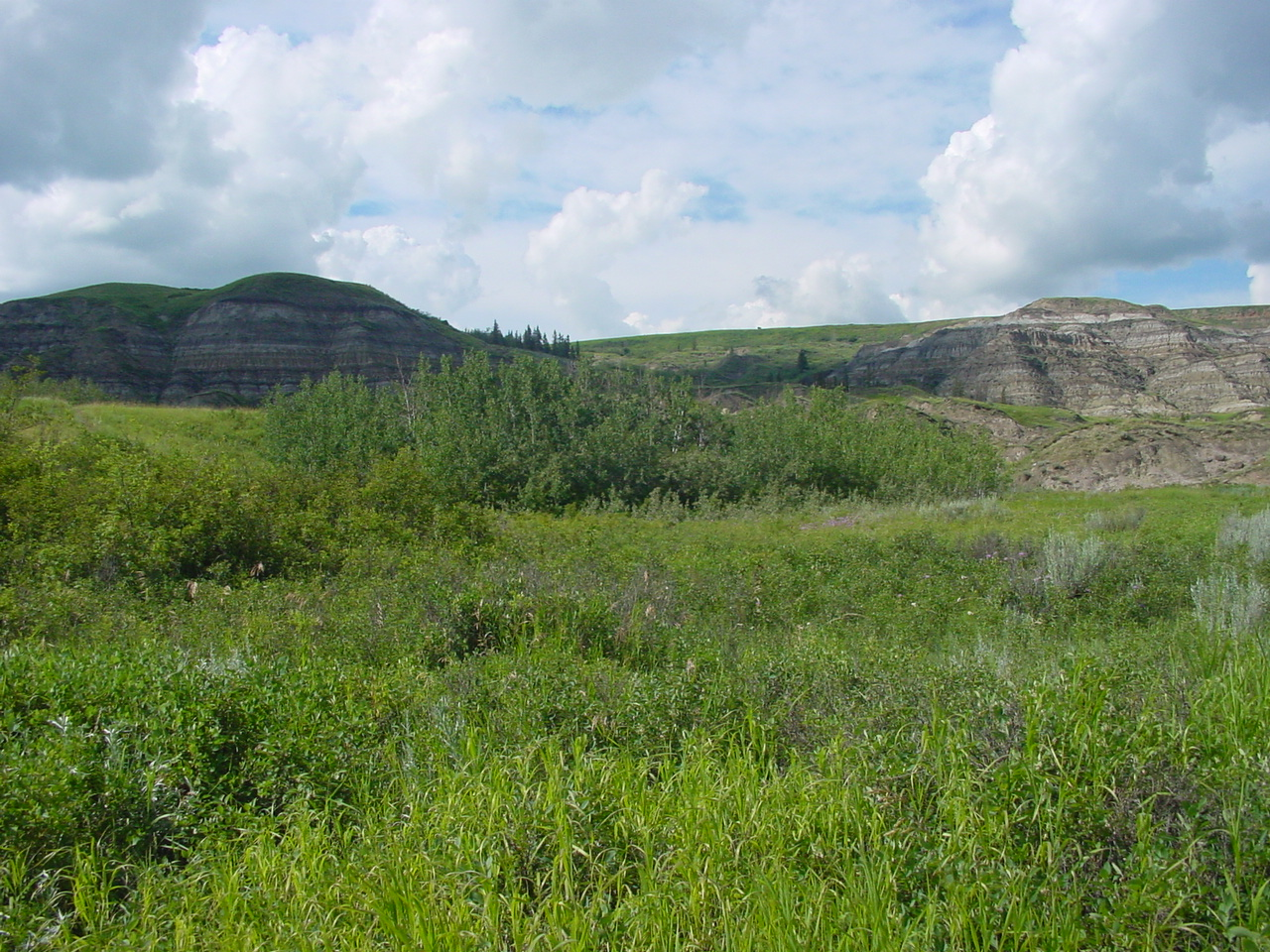 Aspen Parkland in the Red Deer River Valley